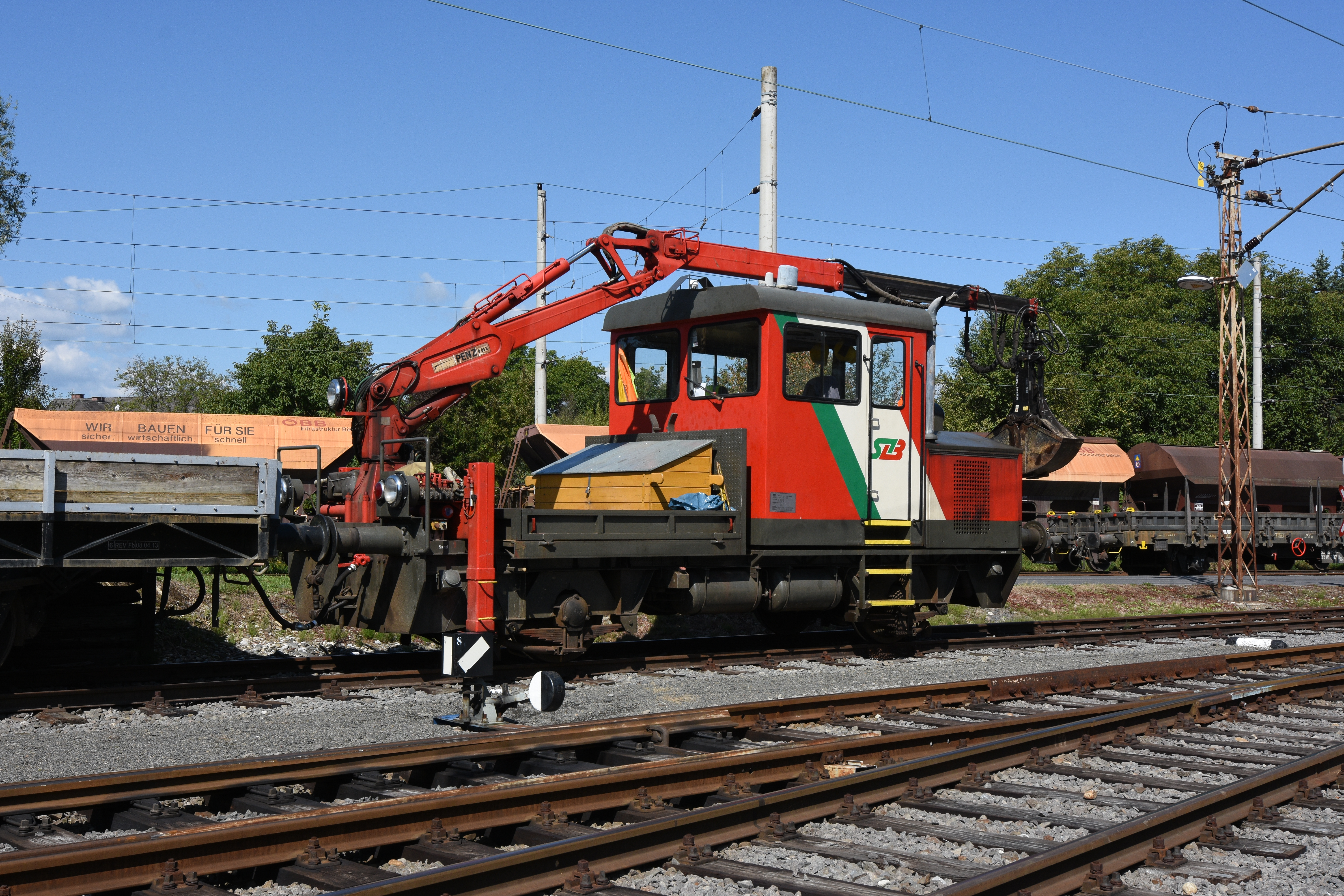 Feldbach–Bad Gleichenberg railway line